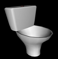 Toilet bowl